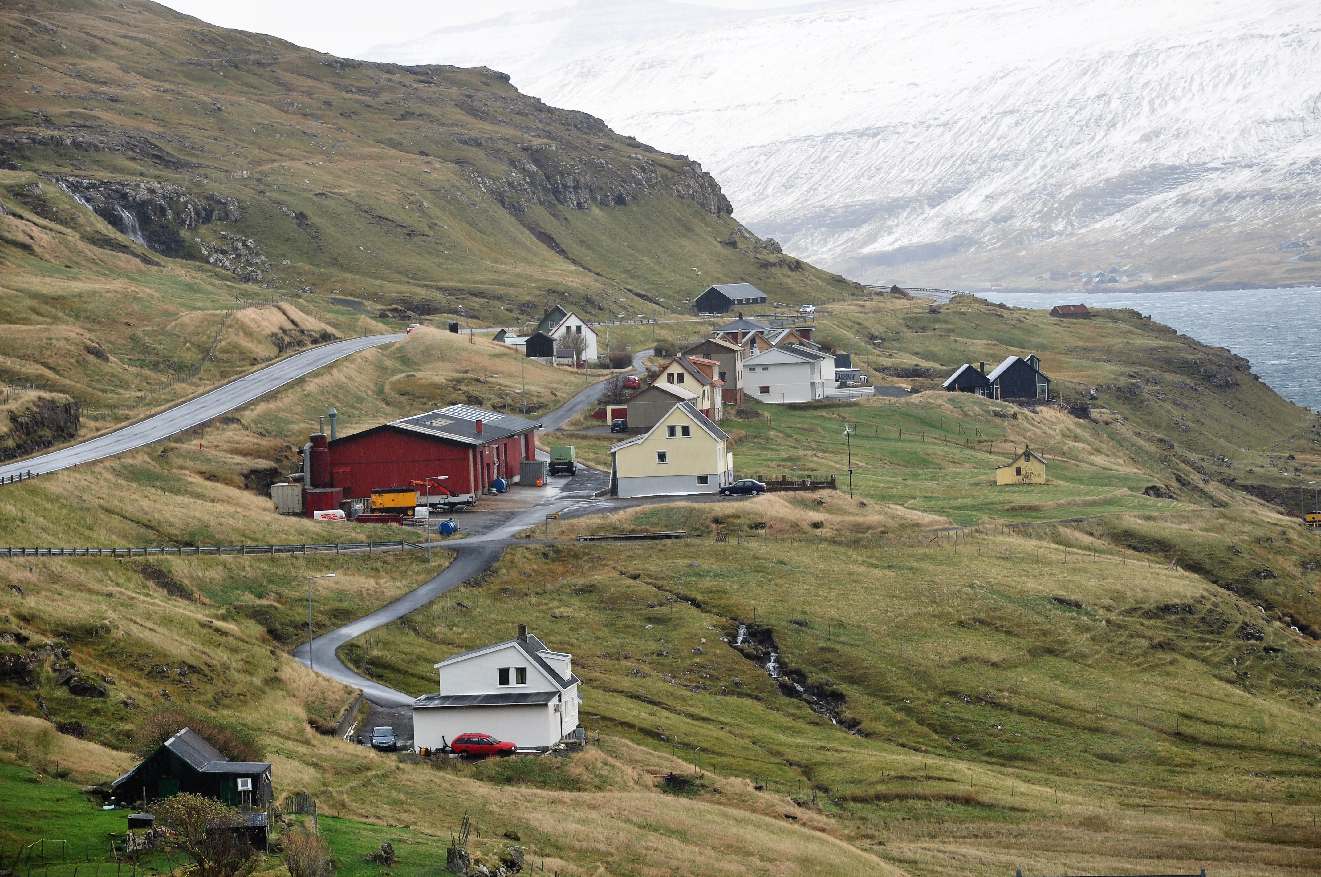 Faroe Islands, Eysturoy, view of Ljósá, looking south, with the village of Langasandur visible on the other side of Sundini (on Streymoy).